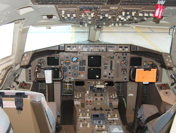 Cockpit_DSC_0959